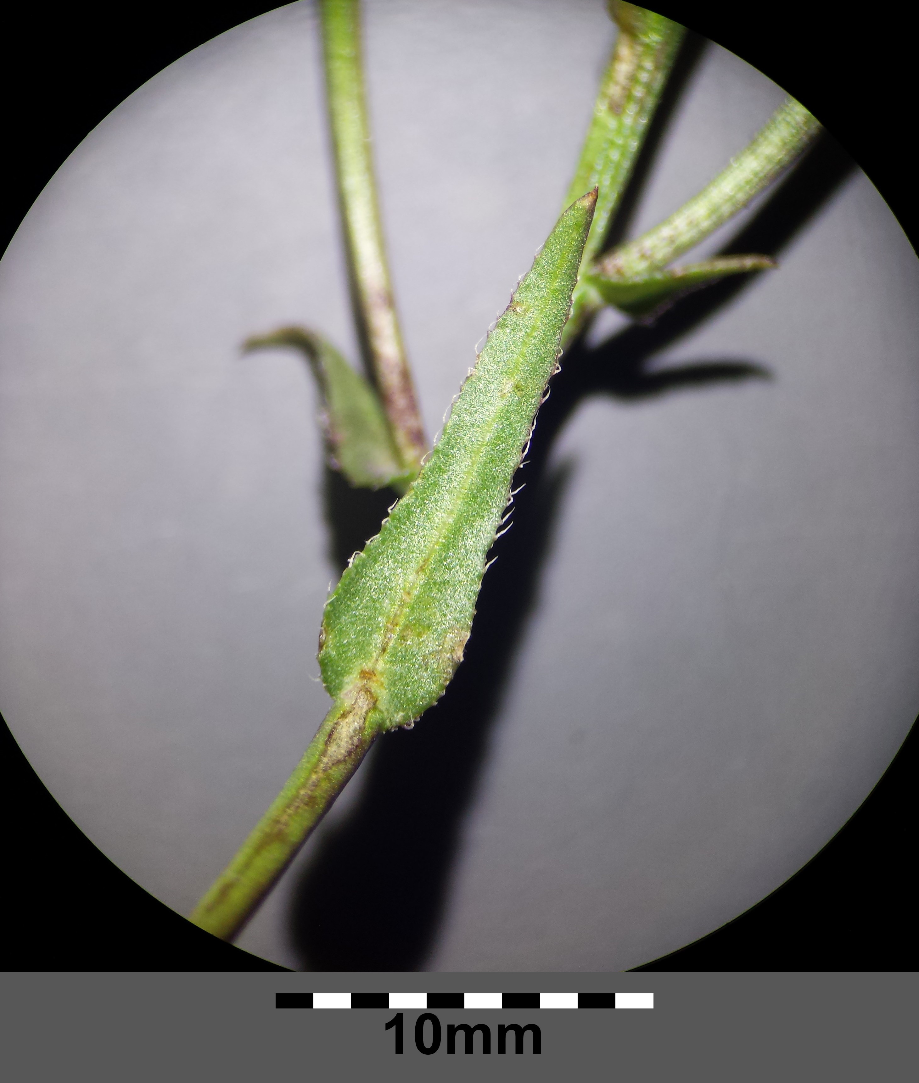 Stipe with leaf Taxonym: Tripolium pannonicum (subsp. pannonicum) ss Fischer et al. EfÖLS 2008 ISBN 978-3-85474-187-9 Location: next to Zwingendorfer, district Mistelbach, Lower Austria - ca. 185 m a.s.l. Habitat: fallow land